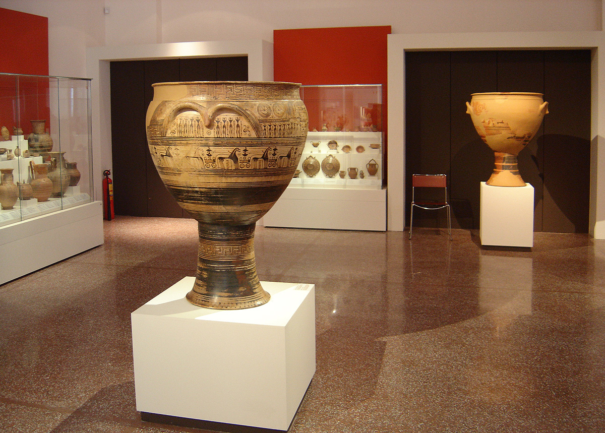 Attic late geometric krater depicting ekphora, the act of carrying a body to its grave.